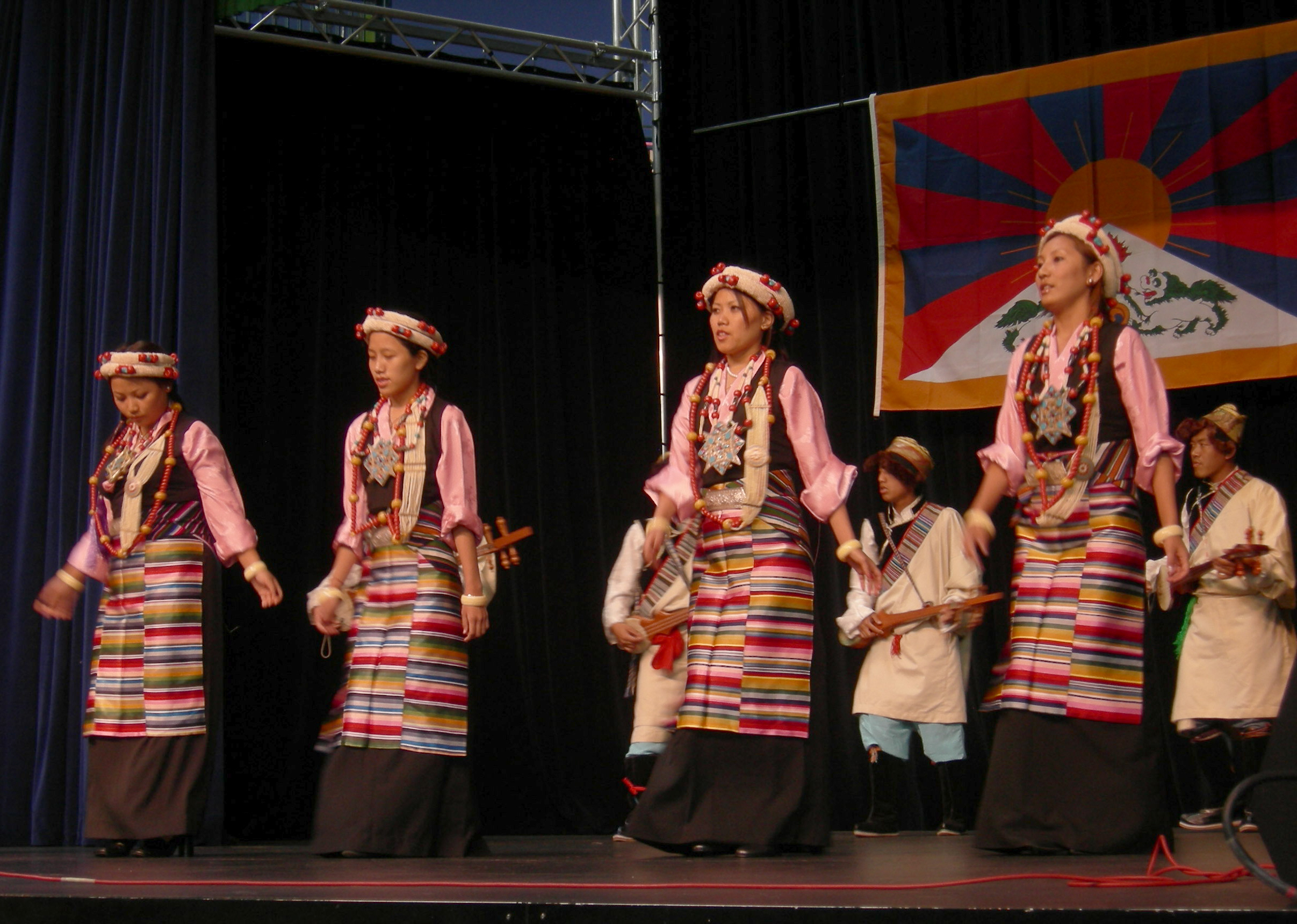 Tibetan dancers and musicians on Center House stage, Seattle Center, Seattle, Washington as part of TibetFest (part of the Festál series of festivals at Seattle Center). This picture was cropped and sharpened.